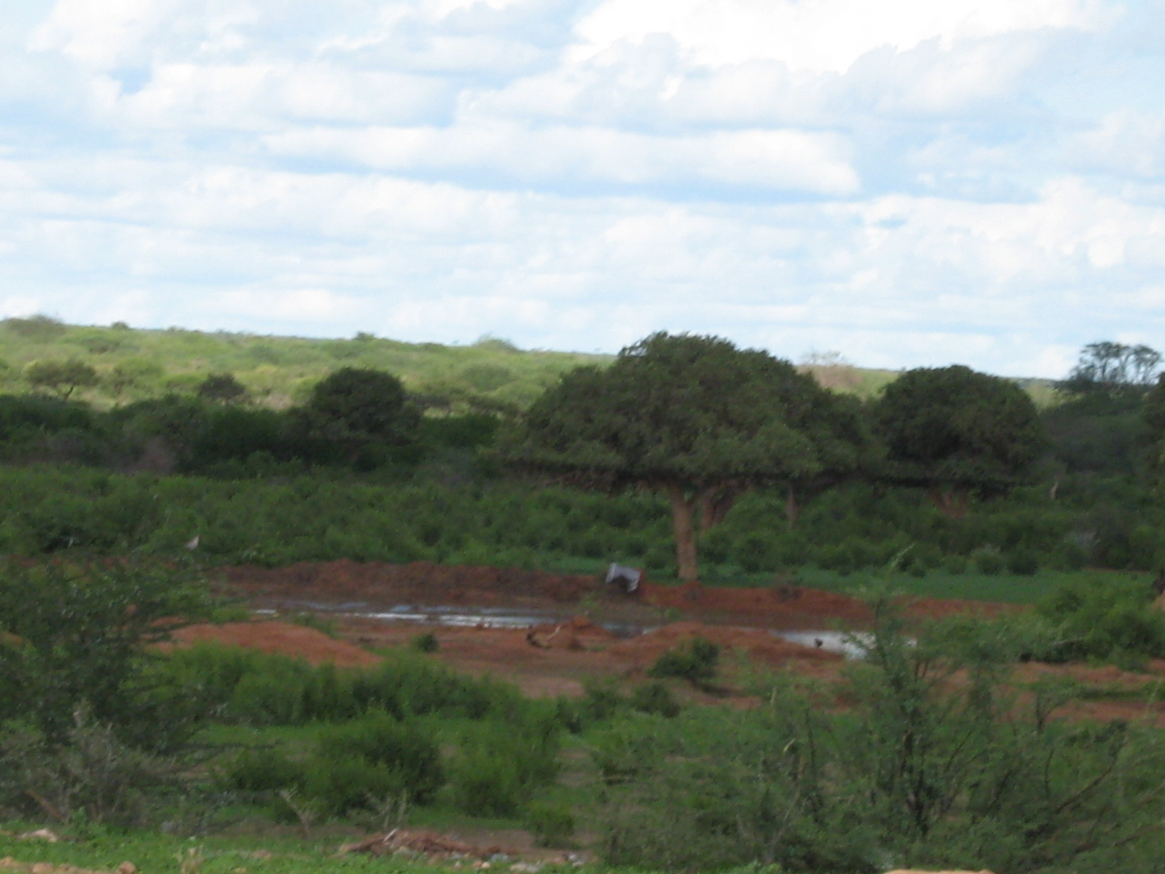 Faafaxdhuun Pond - west of Baardheera, Gedo, Somalia